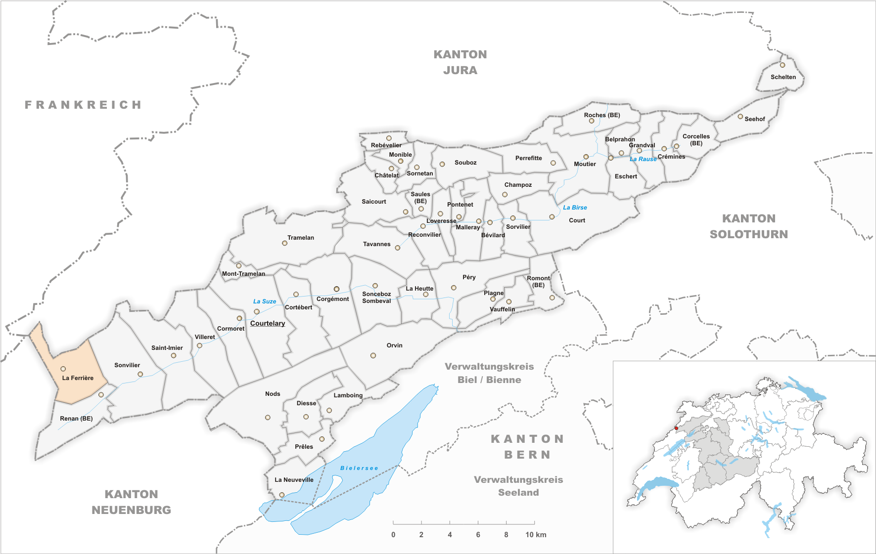 Municipality La Ferrière